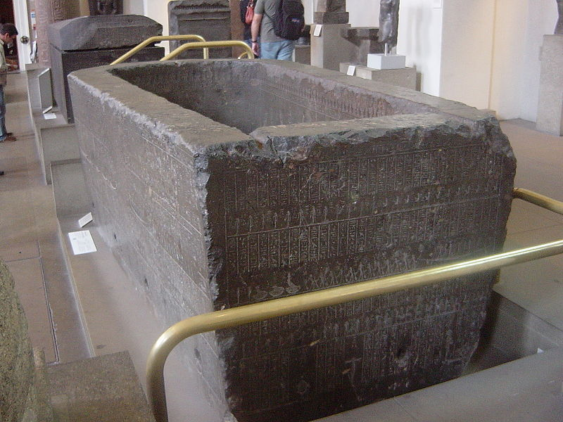 This is the sarcophagus of Nectanebo II, in the British Museum